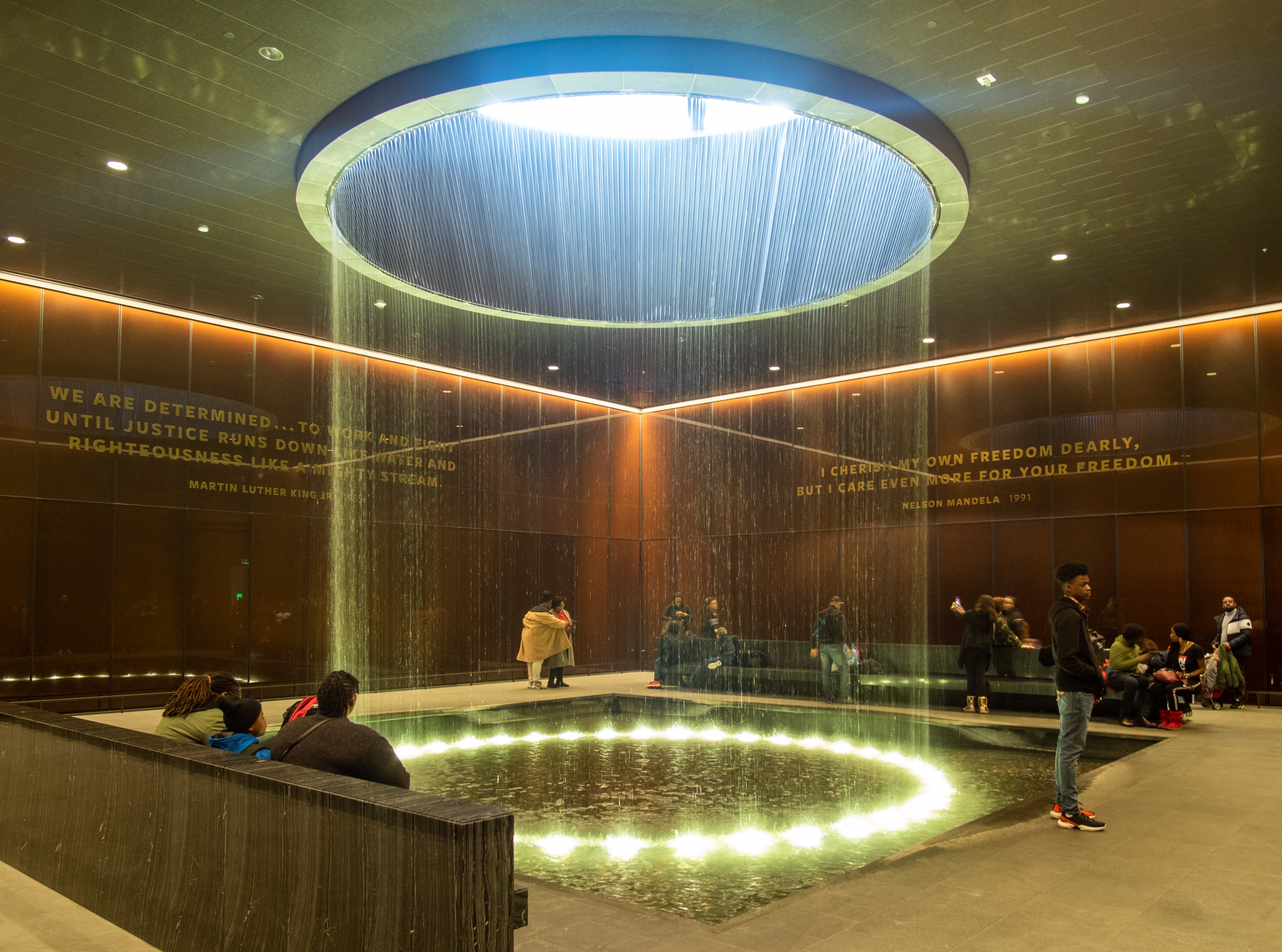 Contemplation Pool at the National Museum of African American History and Culture